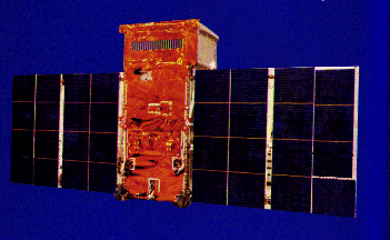 The Thor-Delta rocket system became known as the TD satellites. TD-1A was successfully launched on 11 March 1972 from Vandenberg Air Force Base (12 March in Europe). It was put in a nearly circular polar sun-synchronous orbit, with apogee 545 km, perogee 533 km, and inclination 97.6 degrees. It was Europe's first 3-axis stabilized satellite, with one axis pointing to the Sun to within +/- 5 degrees. The optical axis was maintained perpendicular to the solar pointing axis and to the orbital plane. It scanned the entire celestial sphere every 6 months, with a great circle being scanned every satellite revolution. After about 2 months of operation, both of the satellite's tape recorders failed. A network of ground stations was put together so that real-time telemetry from the satellite was recorded for about 60% of the time. After 6 months in orbit, the satellite entered a period of regular eclipses as the satellite passed behind the Earth -- cutting off sunlight to the solar panels. The satellite was put into hibernation for 4 months, until the eclipse period passed, after which systems were turned back on and another 6 months of observations were made. TD-1A was primarily a UV mission however it carried both a cosmic X-ray and a gamma-ray detector.